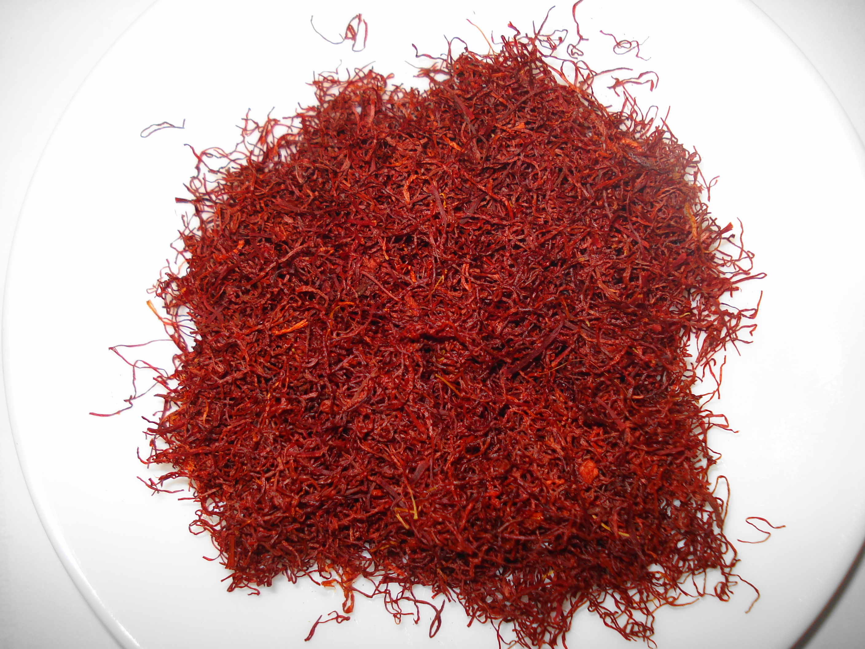 zafran in urdu and arabic